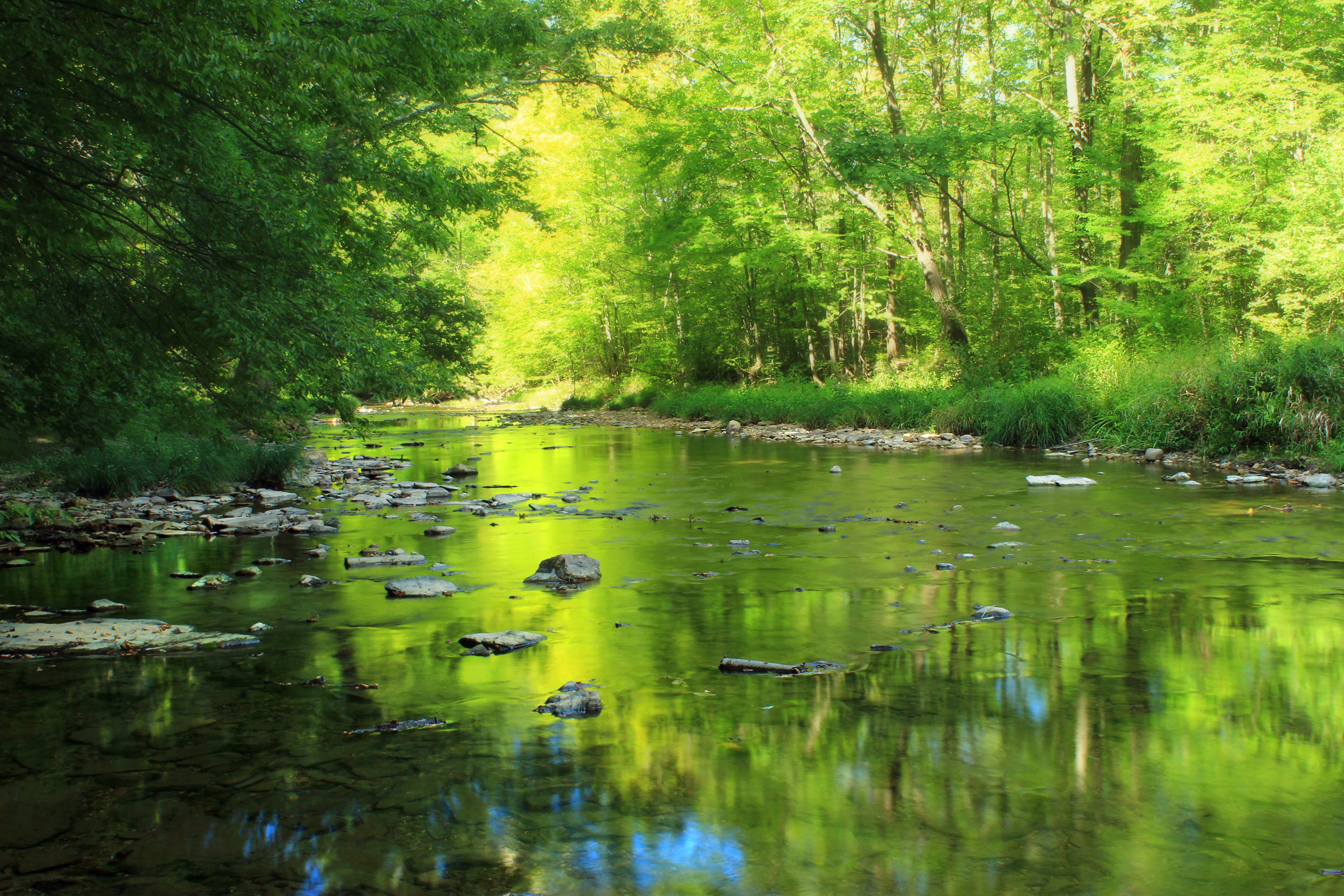 Allen Township, Northampton County, within Kreidersville Covered Bridge Park.